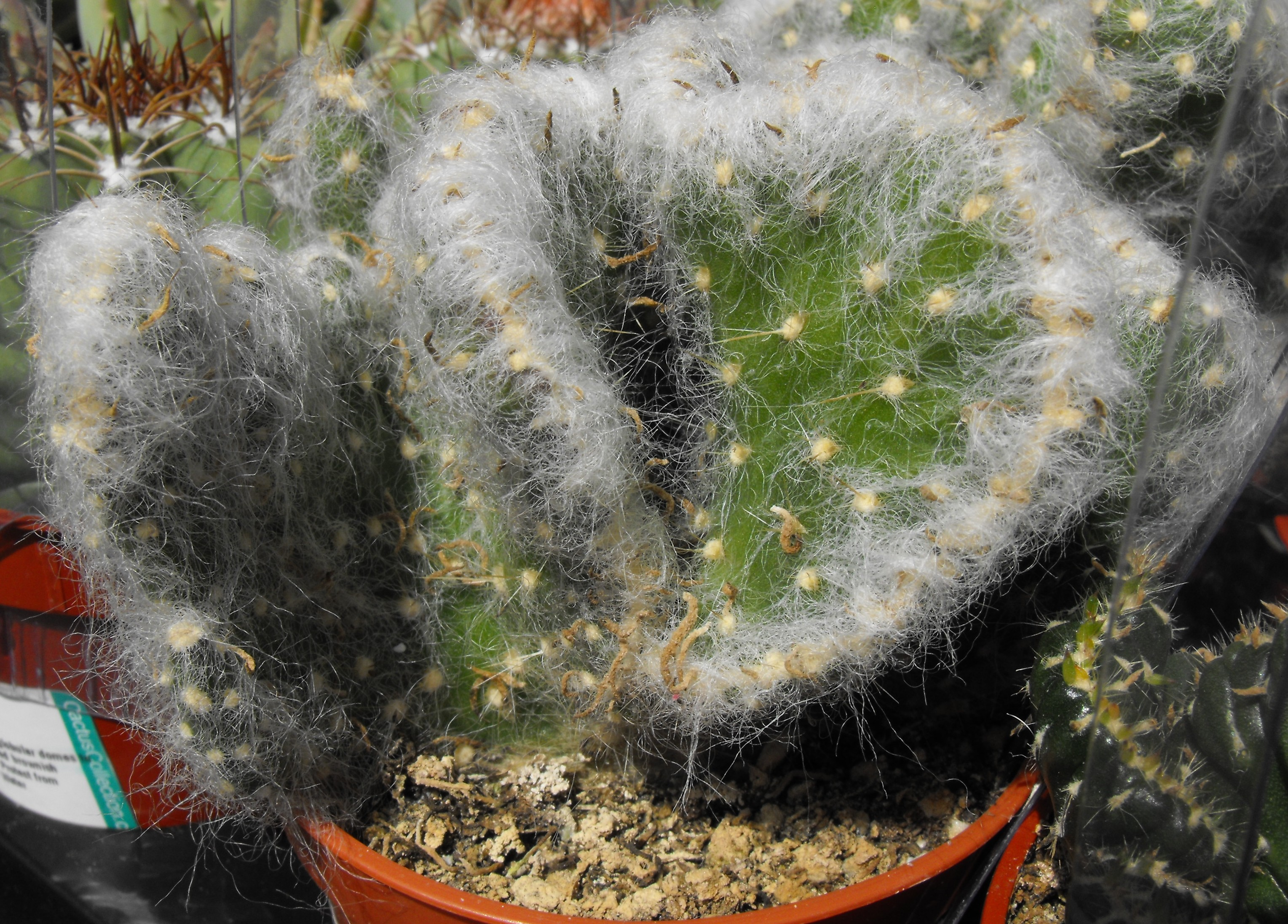 Opuntia vestita at the San Diego Home & Garden Show, California, USA. Identified by exhibitor's sign.